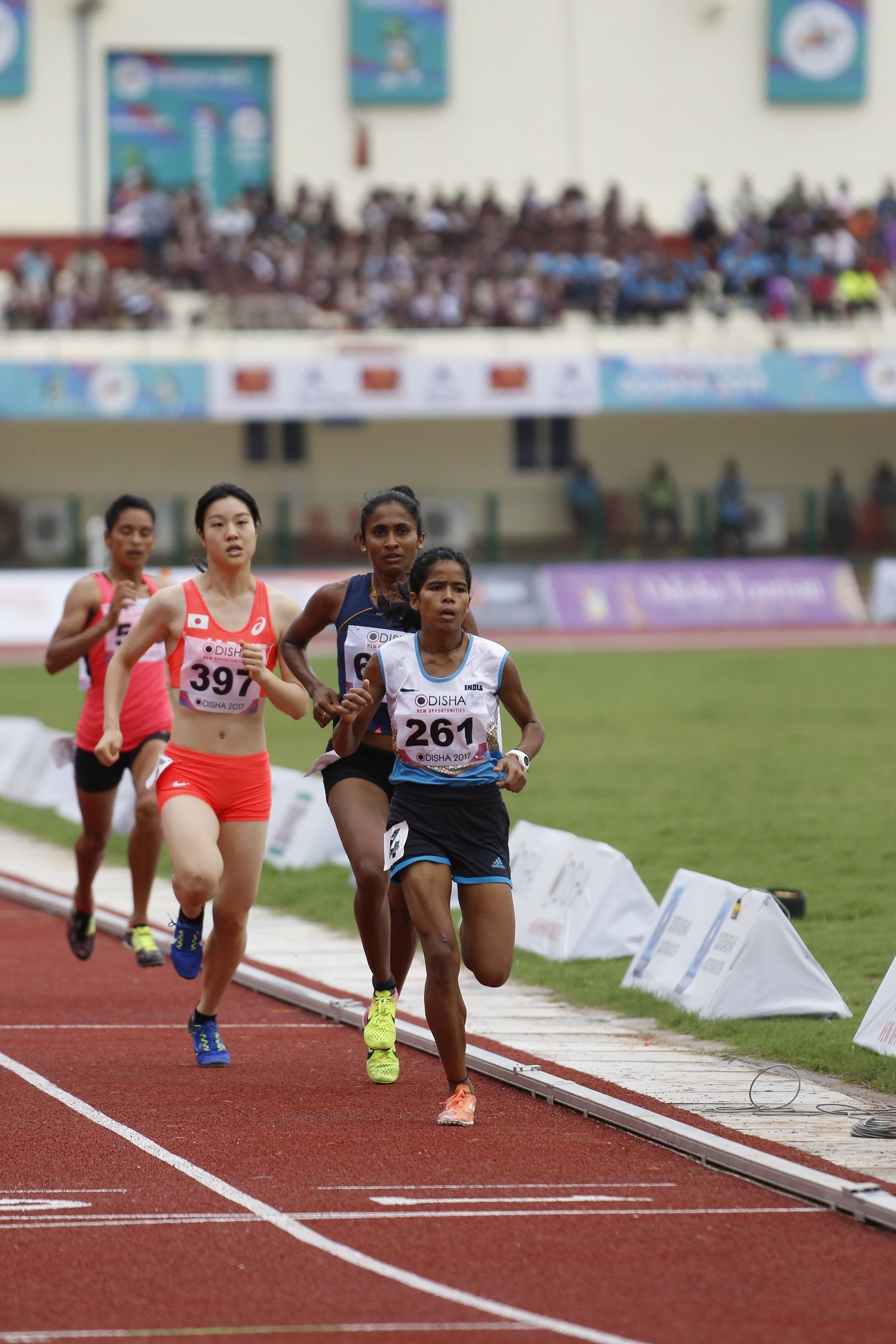 Airi Ikezaki and Lil Das. picture taken at the 2017 Asian Athletics Championships in July 2017 in Bhubaneshwar